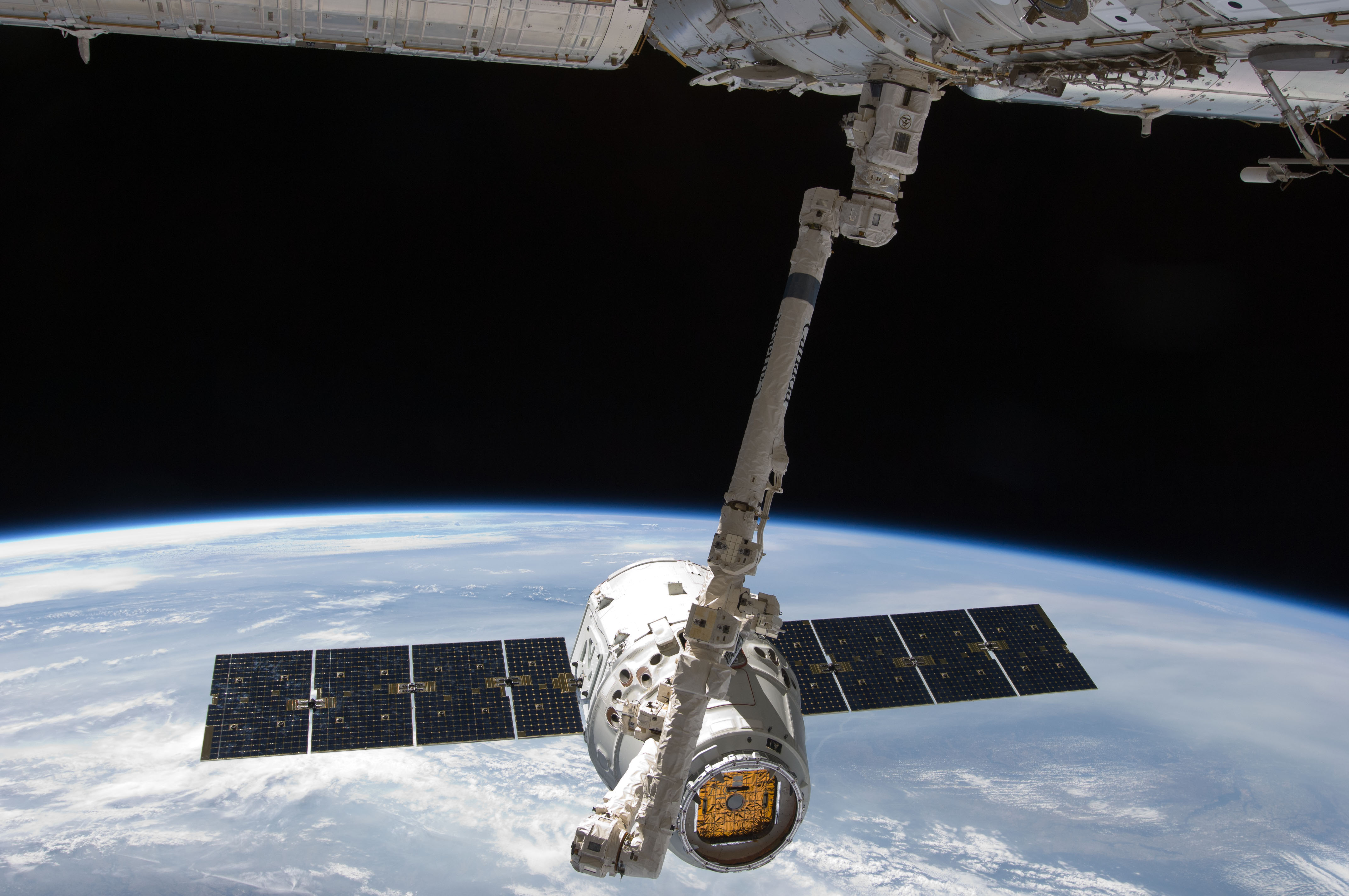 With clouds over Earth forming a backdrop, the SpaceX Dragon commercial cargo craft is grappled by the Canadarm2 robotic arm at the International Space Station. Expedition 31 Flight Engineers Don Pettit and Andre Kuipers grappled Dragon at 9:56 a.m. (EDT) and used the robotic arm to berth Dragon to the Earth-facing side of the station's Harmony node at 12:02 p.m. May 25, 2012. Dragon became the first commercially developed space vehicle to be launched to the station to join Russian, European and Japanese resupply craft that service the complex while restoring a U.S. capability to deliver cargo to the orbital laboratory. Dragon is scheduled to spend about a week docked with the station before returning to Earth on May 31 for retrieval.